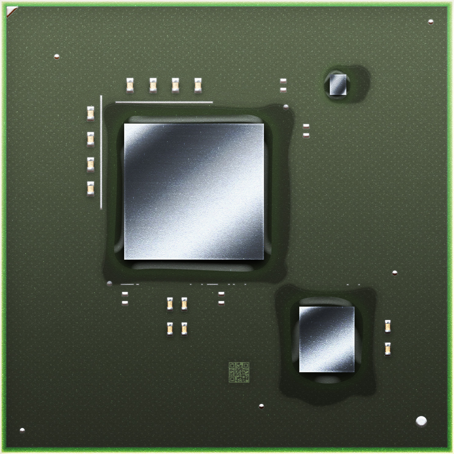 An illustration of the Wii U MCM without heat spreader. The larger chip, upper left, is the "Latte" GPU made by AMD. The smaller chip, lower right, is the "Espresso" CPU made by IBM. The tiny chip, upper right, is a chip made by Renesas with unknown purpose. Inspiration from images provided by Nintendo [1], iFixit [2] and AnandTech [3]